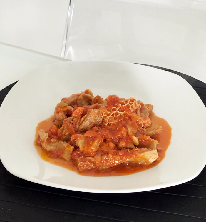 The picture shows a plate of Trippa alla Romana, a classical dish of Roman cuisine